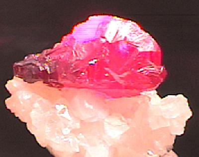 Lorándite Locality: Mercur Mine, Mercur District (Camp Floyd District), Oquirrh Mts, Tooele County, Utah, USA (Locality at ) An amazing thumbnail specimen featuring a slender, gemmy lorandite crystal perched atop contrasting calcite xls! Couldn't possibly ask for better! Not only great for the species but pretty enough to go into any world class thumbnail collection, as well! (shown in normal light and under backlighting) 1.8 x 1.8 x 0.4 cm